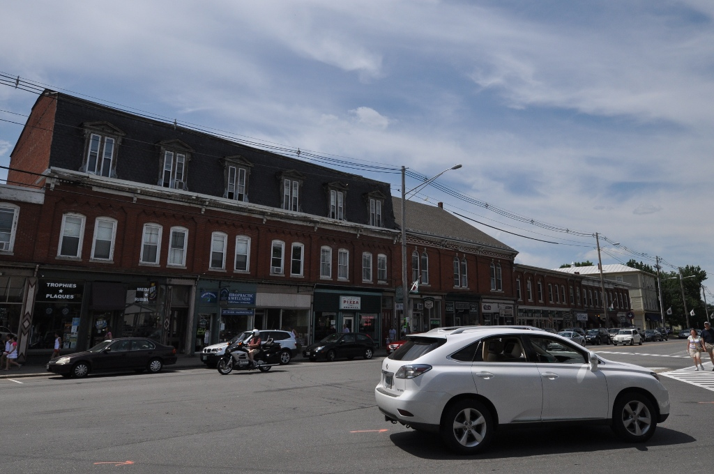 The main commercial blocks of downtown South Berwick, Maine.